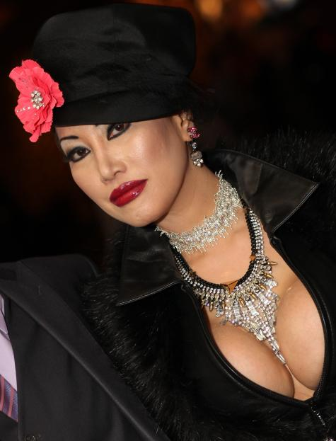 Mimi Miyagi at the 2013 AVN Awards held at the at the Hard Rock Hotel & Casino in Las Vegas. Photo by Michael Dorausch This photo is licensed under a Creative Commons license. If you use this photo within the terms of the license or make special arrangements to use the photo, please list the photo credit as "Michael Dorausch" and link the credit to . Thank you to everyone for being so accommodating during the days I took photos, it's much appreciated.